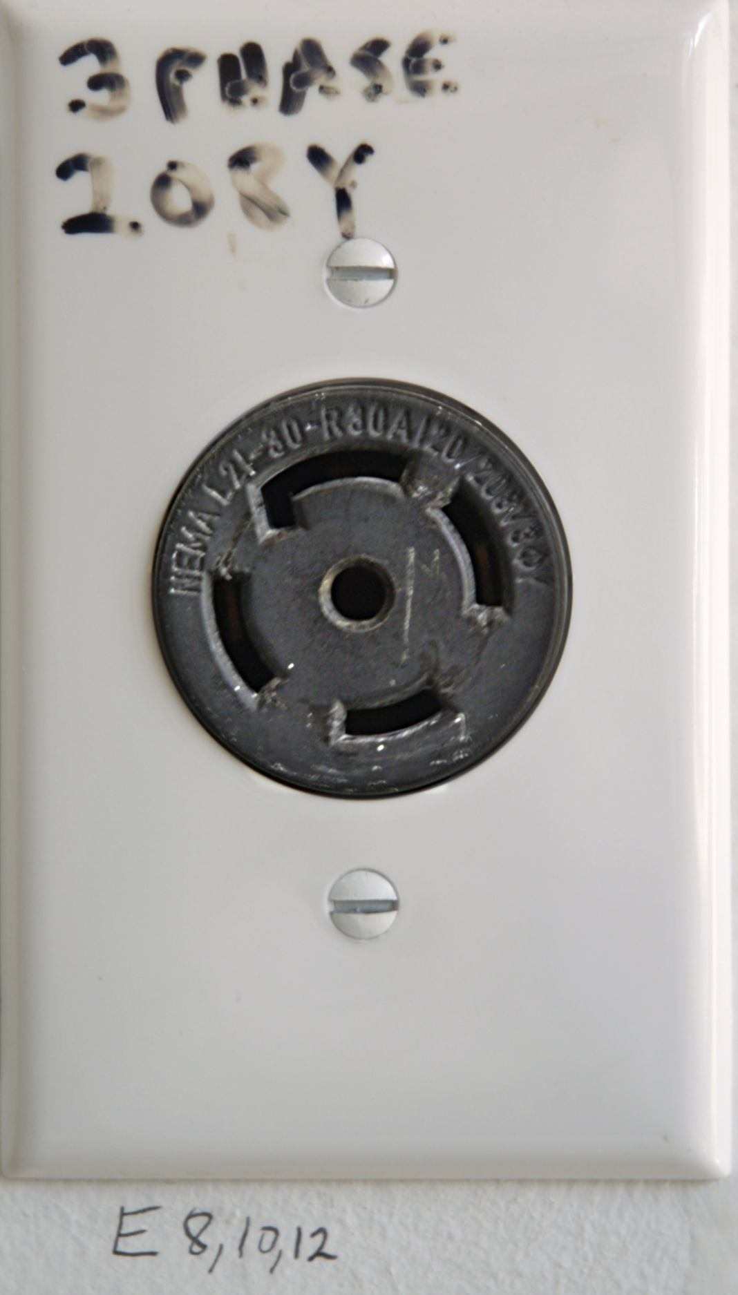 L21–30 receptacle This is a picture I took of an L21–30 receptacle that I bought at Paul Wolf Electric, to have installed in our front living room. It shows signs of wear, having been heavily used. The pencil writing on the wall is to indicate what breaker it is connected to, namely breaker panel E, positions 8, 10, and 12. It is connected by way of a 10 gauge cable that has red, black, blue wires for the three hots, a white wire for the neutral, and a bare wire for the ground. I give permission to Wikipedia, license, to use this image.